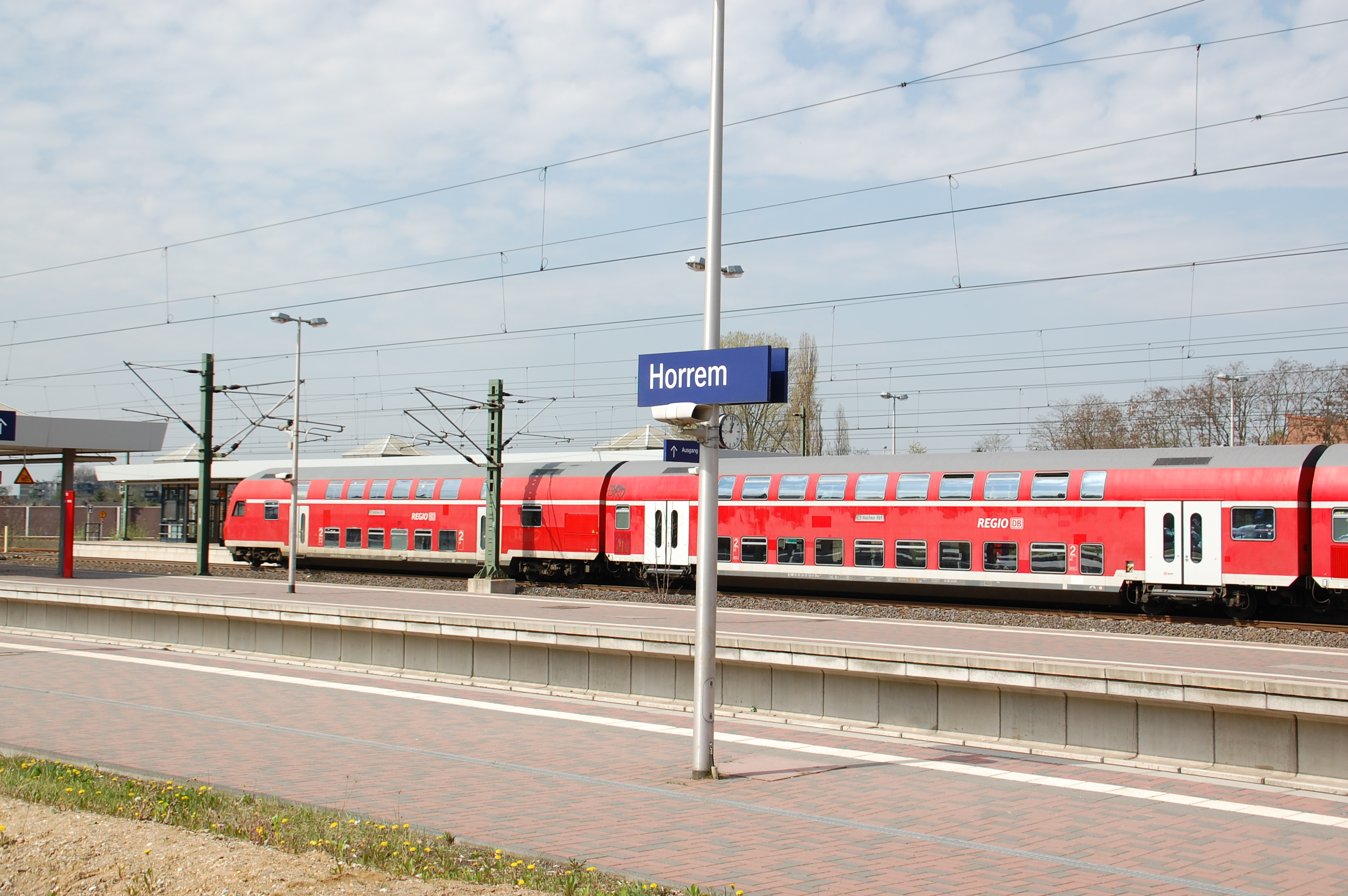 Railway Station in in Kerpen-Horrem, Germany